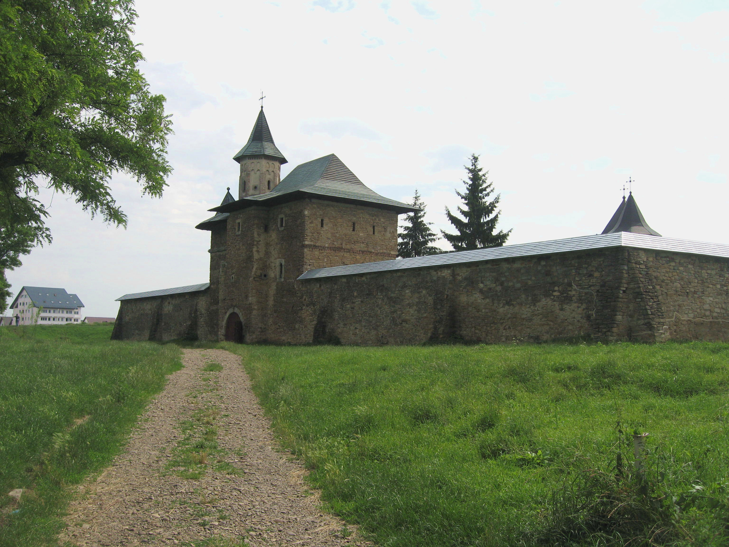 Zamca Monastery in Suceava - the chapel building.